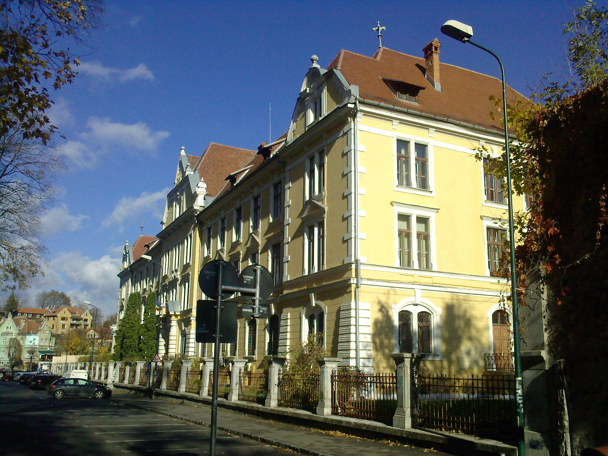 Áprily Lajos National College, Braşov, Romania